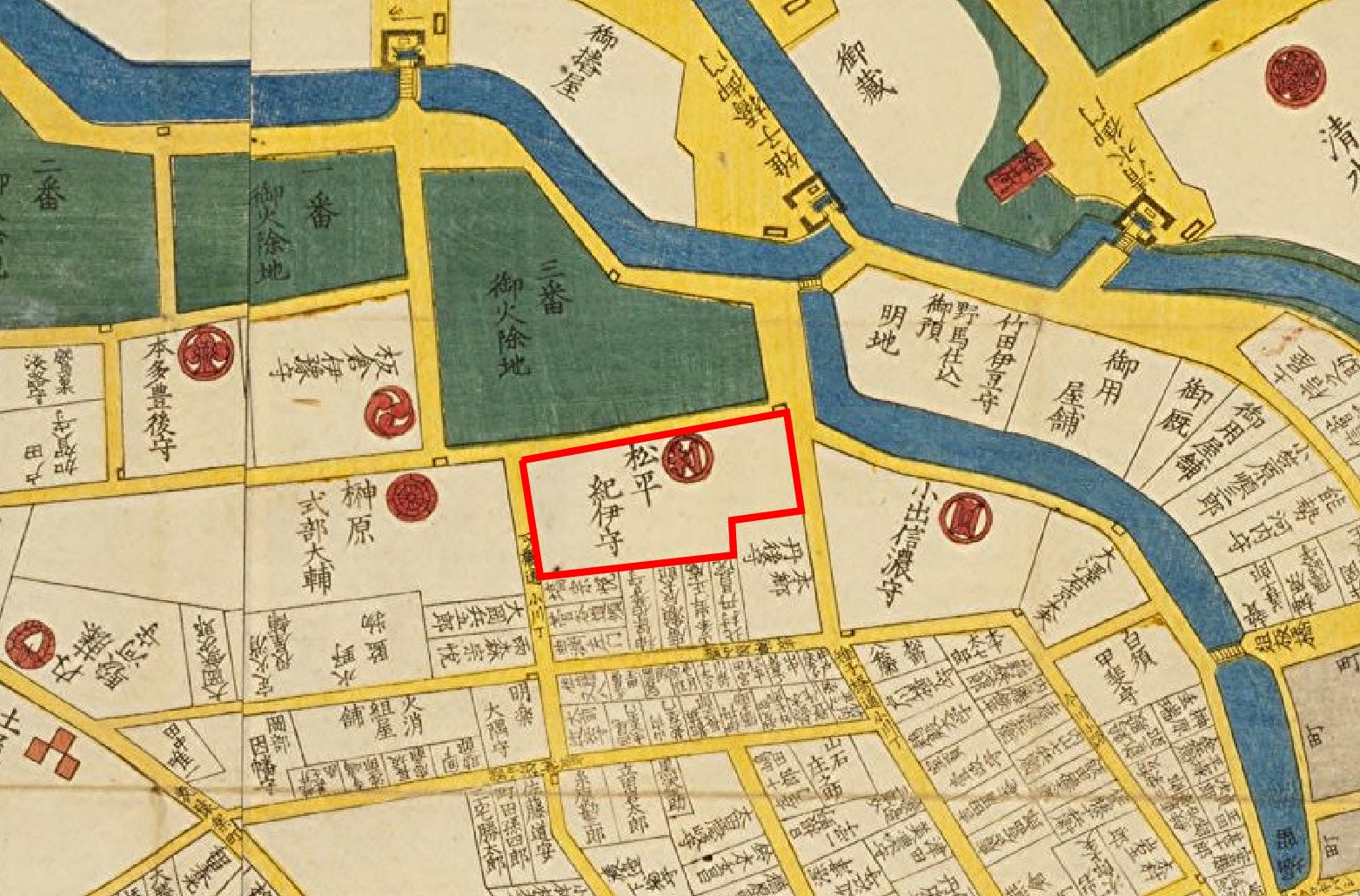 REsidence of Karayama clan at Edo